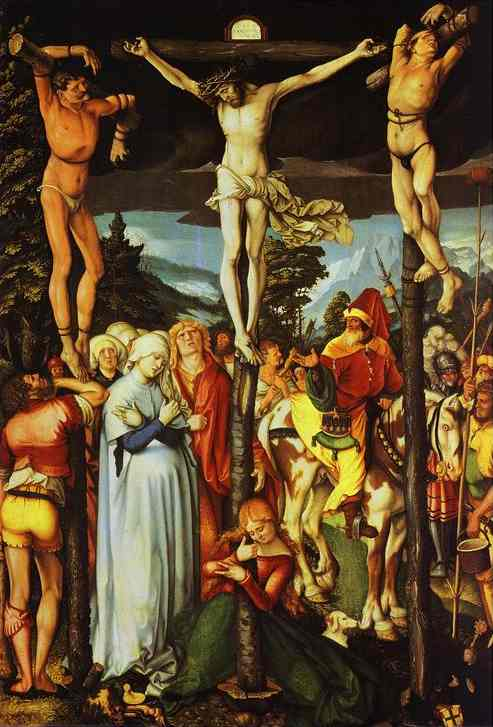 Crucifixion by Hans Baldung Grien. Picture representing the cruxifixion of Jesus Christ.